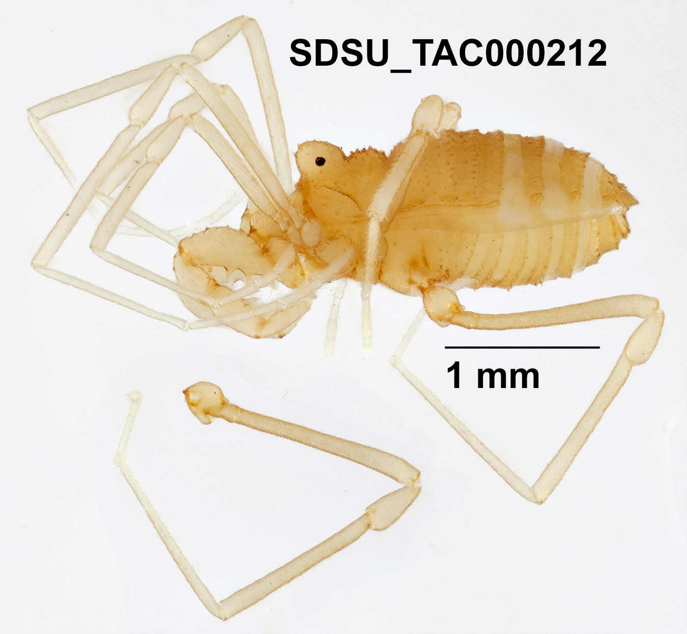 Sitalcina peacheyi Ubick & Briggs, 2008; PRESERVED_SPECIMEN; MALE; ADULT; 24/03/2012 00:00; Identified by: M Hedin